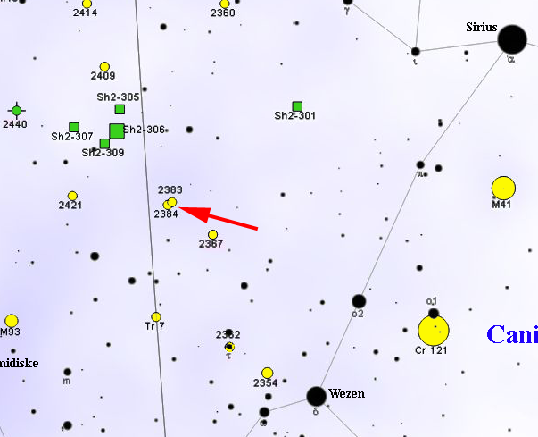 Map of NGC 2383 and NGC 2384